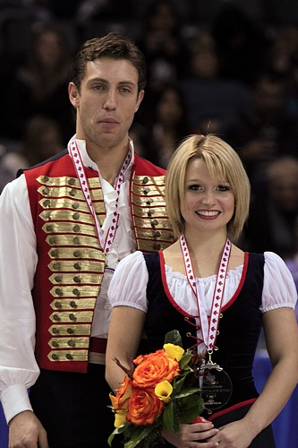 2010 Skate Canada International - Kirsten Moore-Towers and Dylan Moscovitch